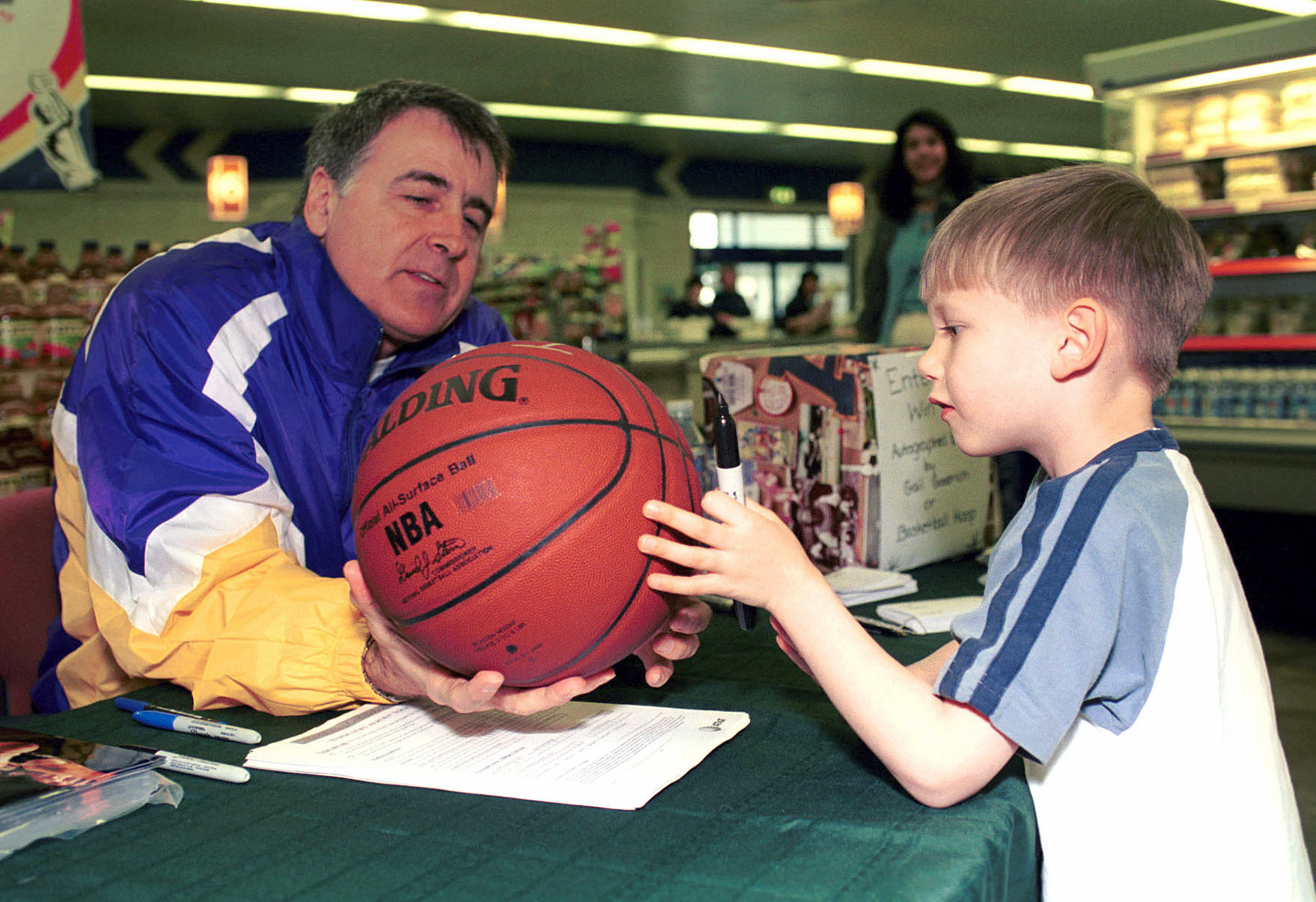 Ryan Caron, a five-year old dependant at Royal Air Force (RAF), Lakenheath, UK gets National Basketball Association (NBA) Hall-of-Famer Gail Goodrich to autograph his basketball. Mr. Goodrich is part of the 3RD Annual Hardcourt Hero's European Tour, where former NBA players are visiting 13 United States military bases throughout England and Germany. (Released to Public)